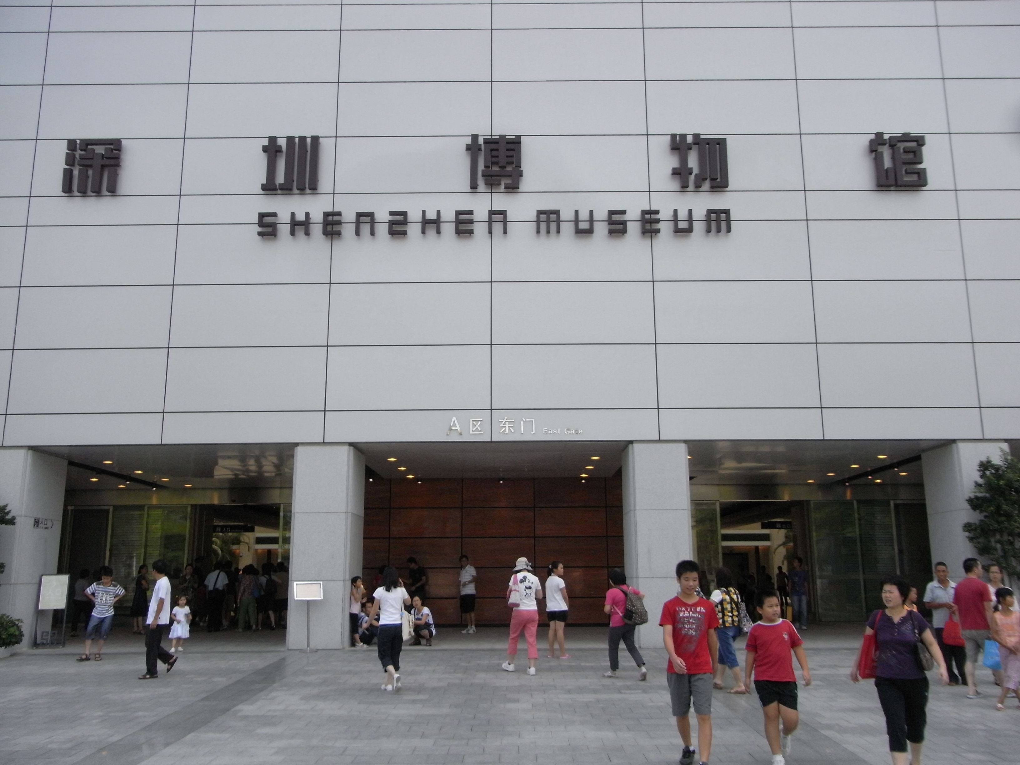 Shenzhen Museum